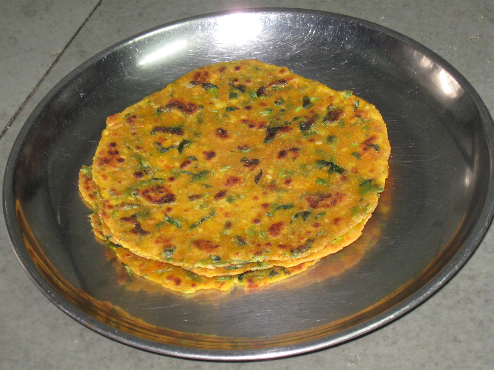 Thepala, Popular Gujarati Dish